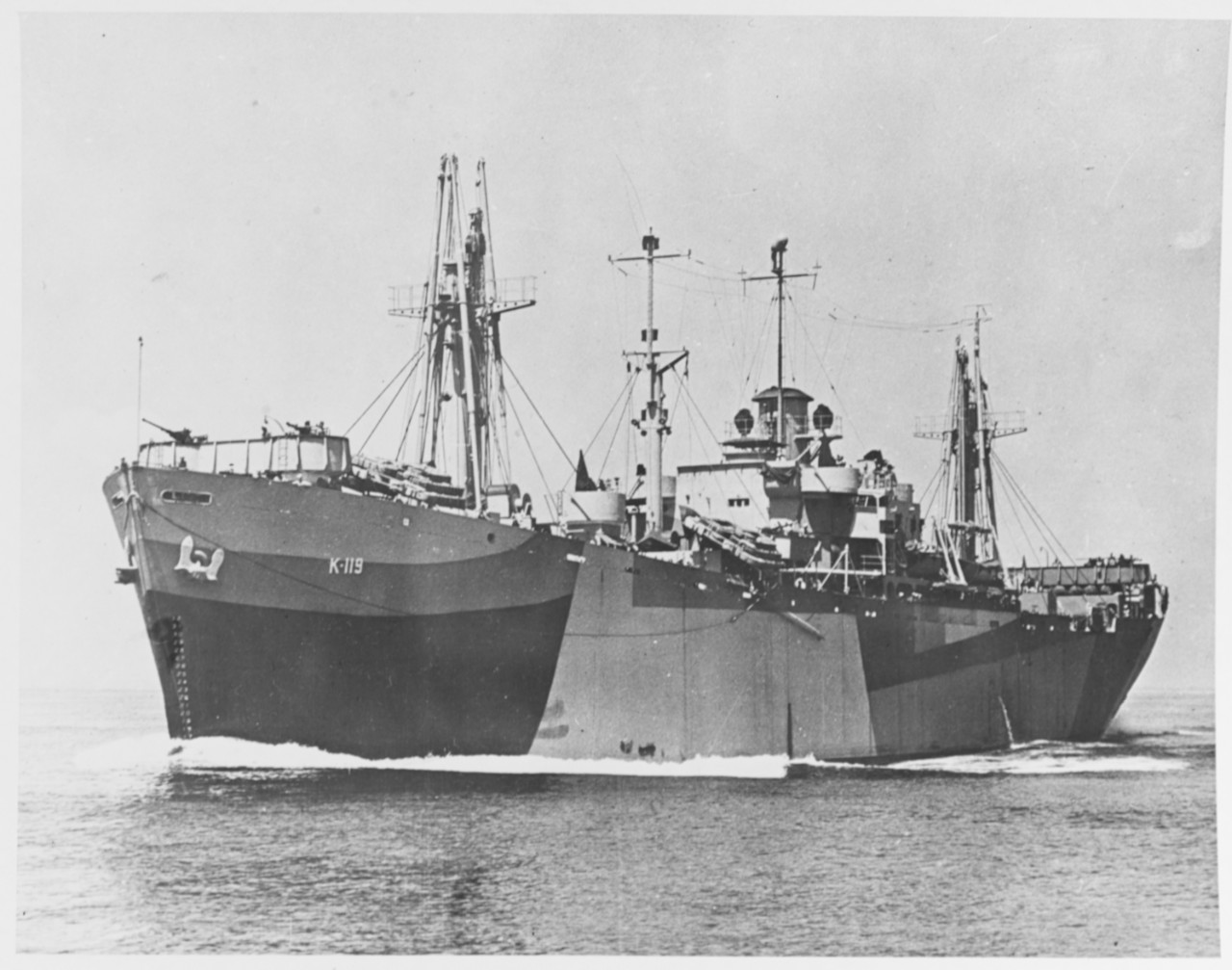 USS MATAR (AK-119), off Jacksonville, Florida, 18 May 1944. 80-G-334829 National Archives